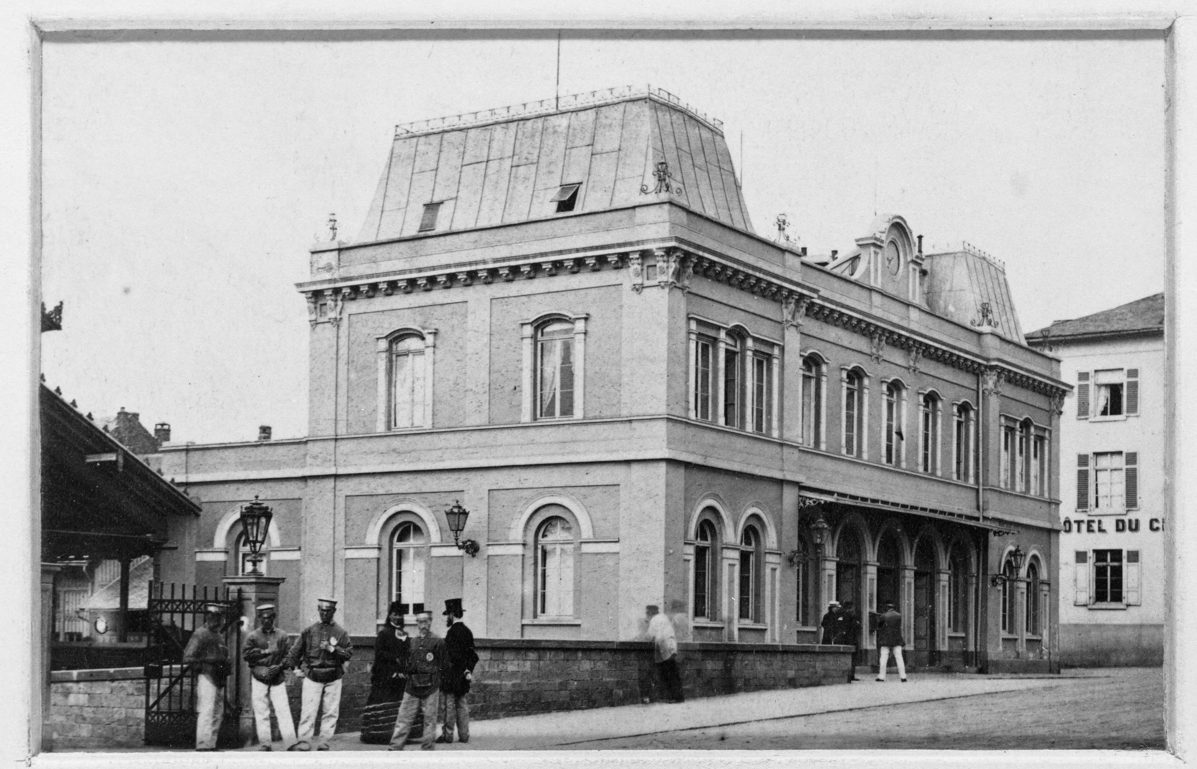 Main building of old railwaystation in Bad Homburg